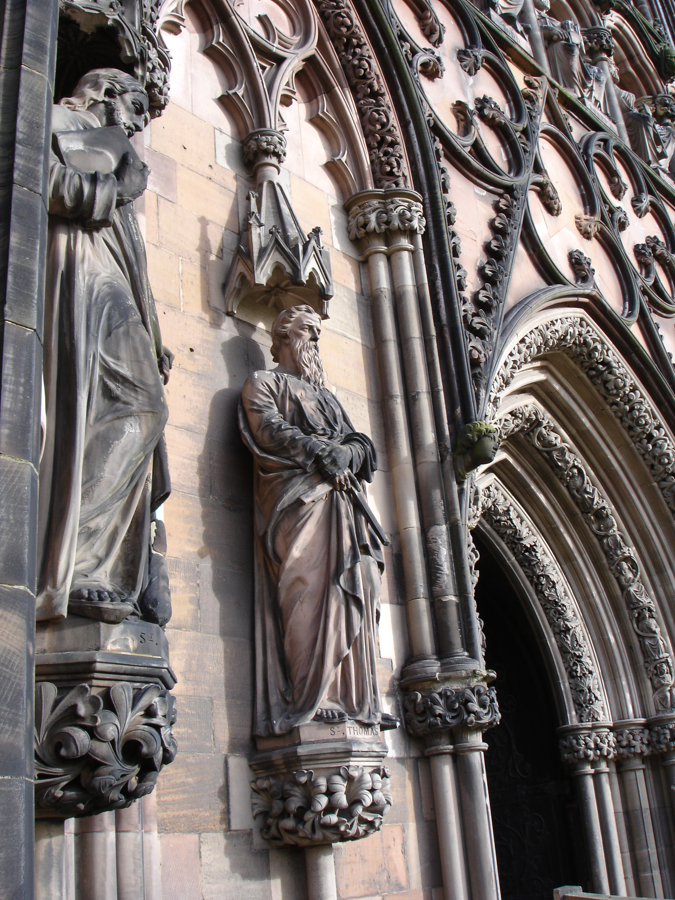 Detail of the west front of Lichfield Cathedral. Taken Feb 2006